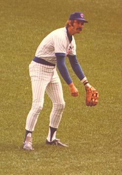 I took this inadvertently self-defining photo of Dave Kingman on September 7, 1979.